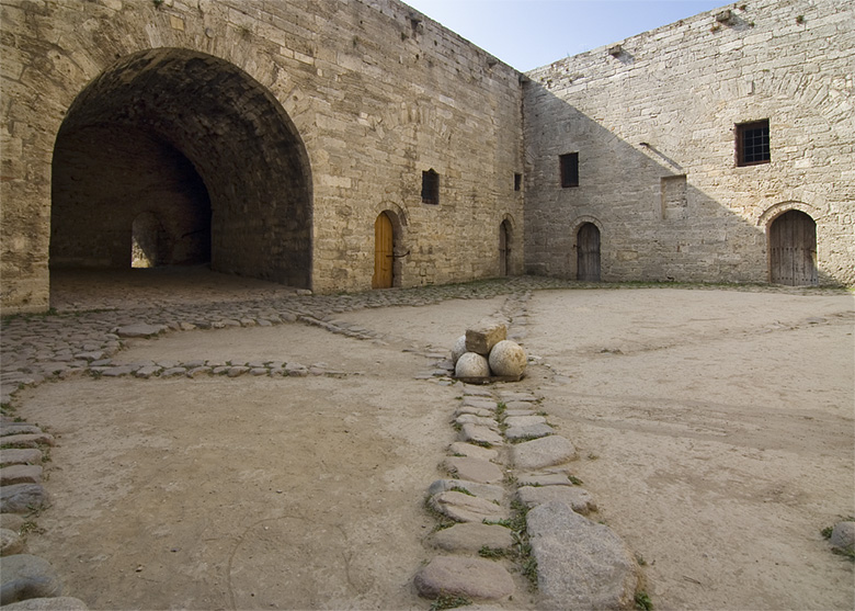 Inside the Baba Vida fortress, Vidin, Bulgaria